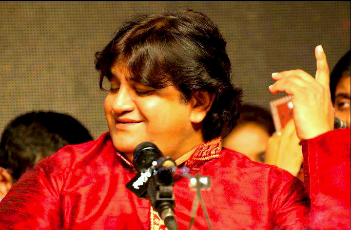 Concert photo